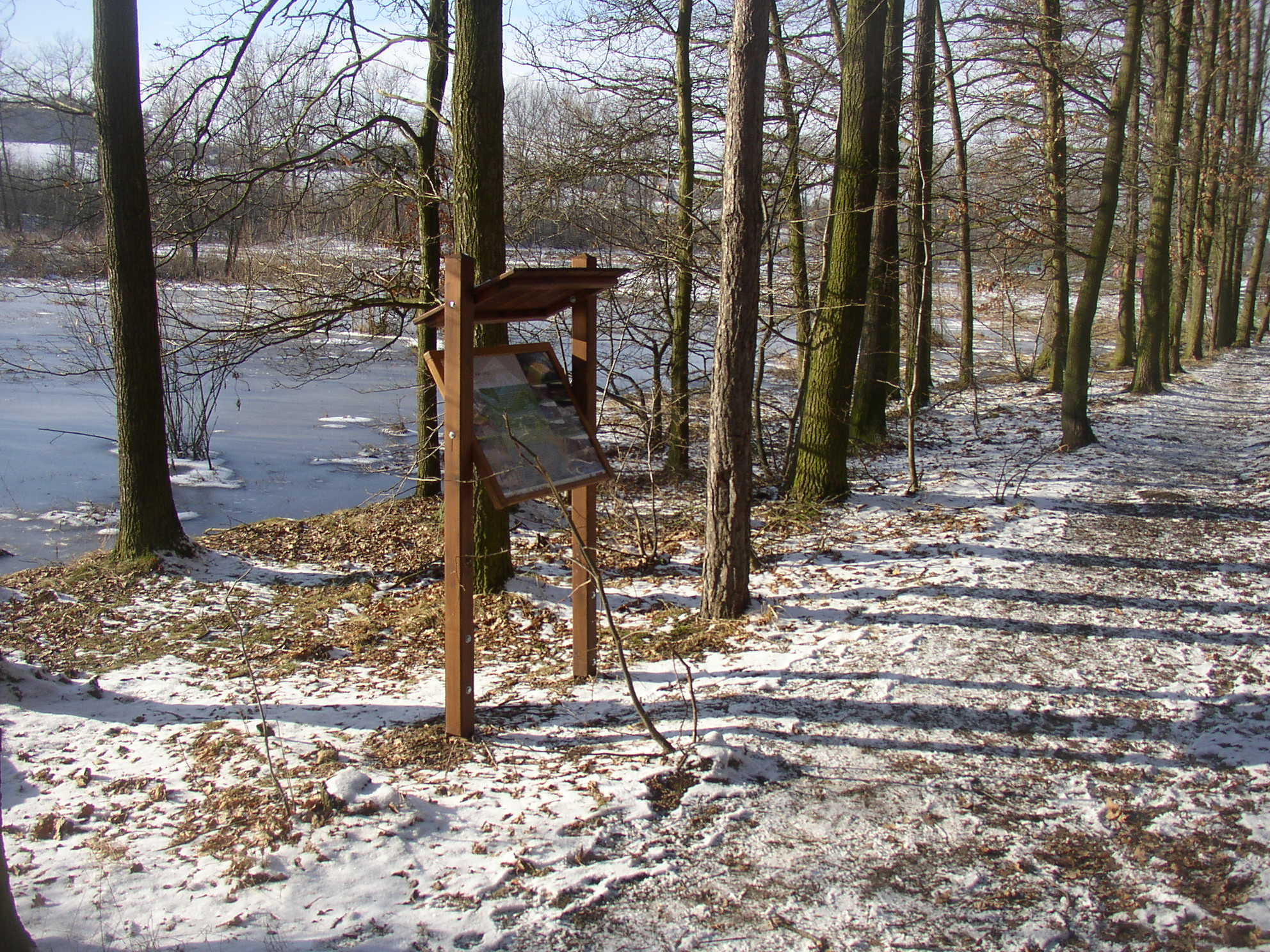 Kalspot natural monument near Kamenné Žehrovice, Kladno District, Czech Republic.